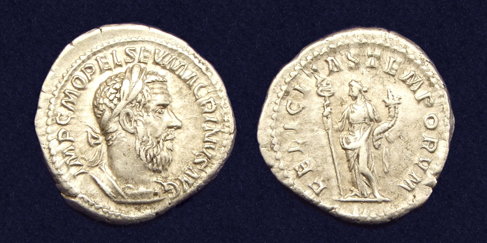 Roman AR Denarius of Macrinus, struck 217 AD. Obverse: Laureate, draped and cuirassed bust right; IMP C M OPEL SEV MACRINVS AVG. Reverse: Felicitas standing left, holding caduceus & cornucopia; FELICITAS TEMPORVM.